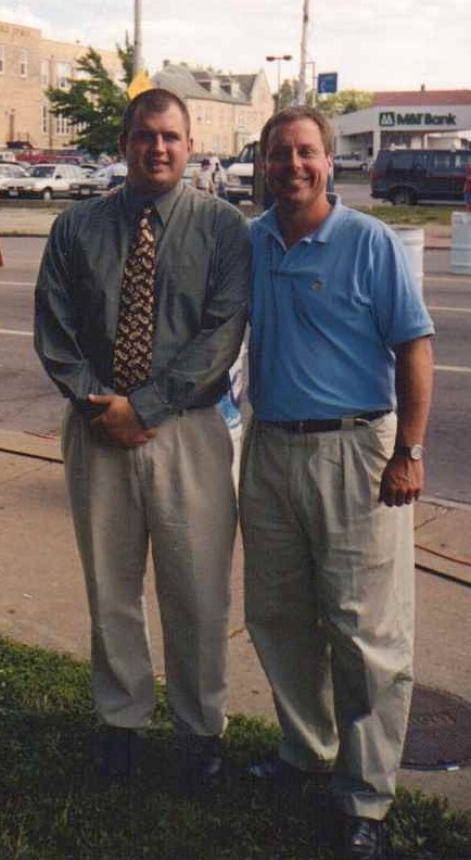 Sam Hoyt with Constituent, Buffalo, NY, 2000